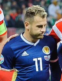 Scottish footballer Ryan Fraser on 10 October 2019, during the 2020 UEFA European Championship qualifying match between Scotland and Russia in Moscow.